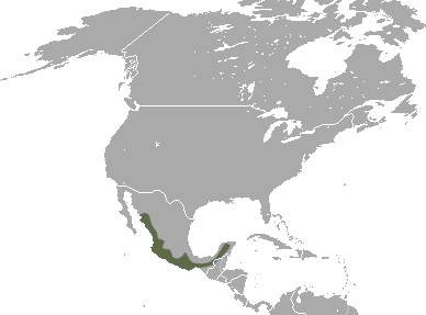 Grayish Mouse Opossum (Tlacuatzin canescens) range